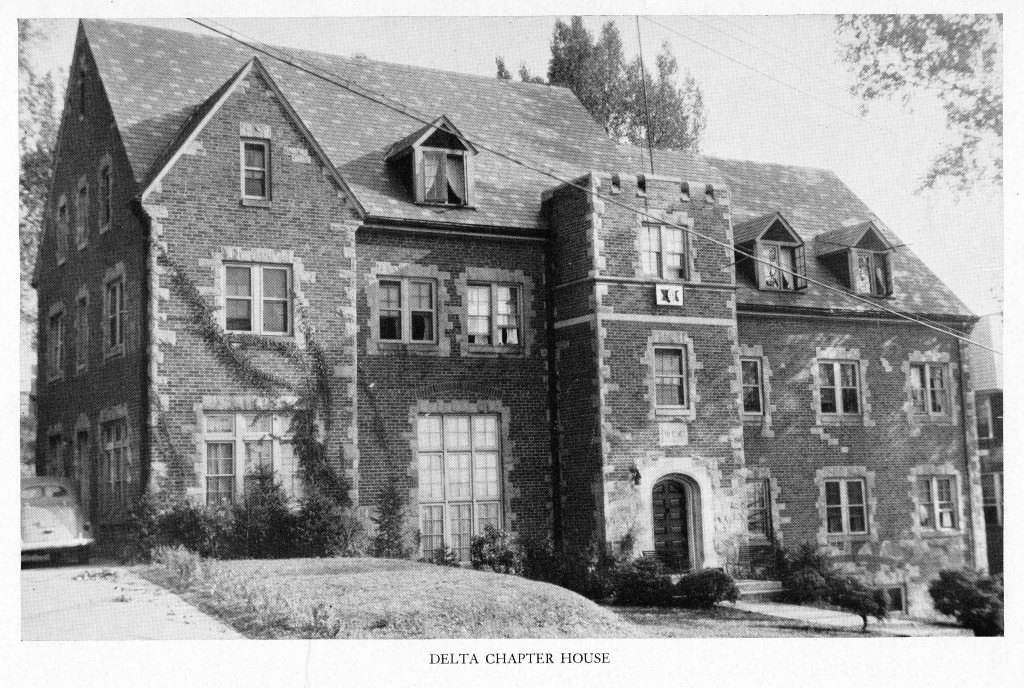 Delta Chapter of Phi Sigma Kappa fraternity, at West Virginia, as pictured in the May 1941 Signet. low res. For use on the List of Phi Sigma Kappa Chapters page.